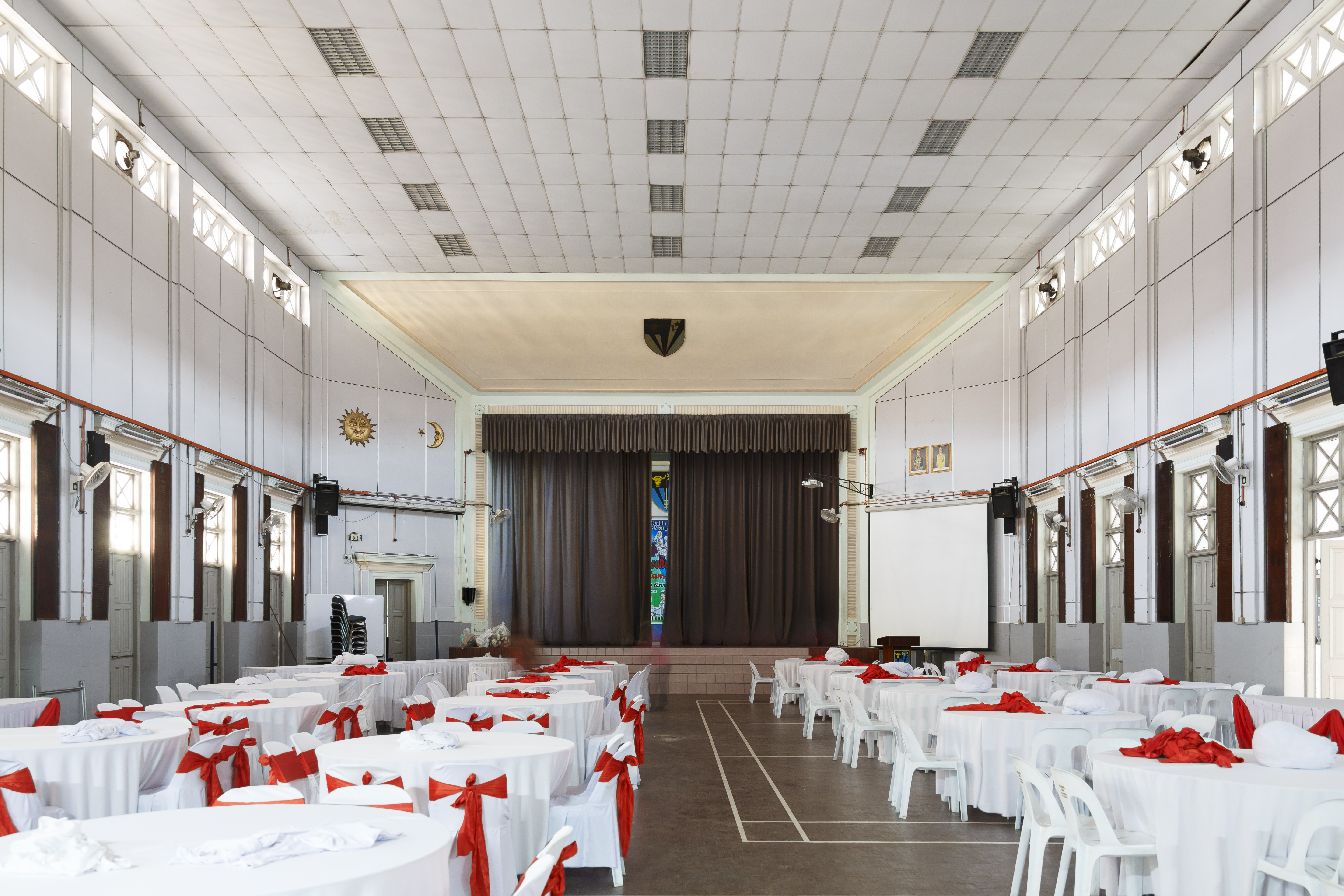 Kuala Lumpur, Malaysia: Multipurpose hall of Victoria Institution.